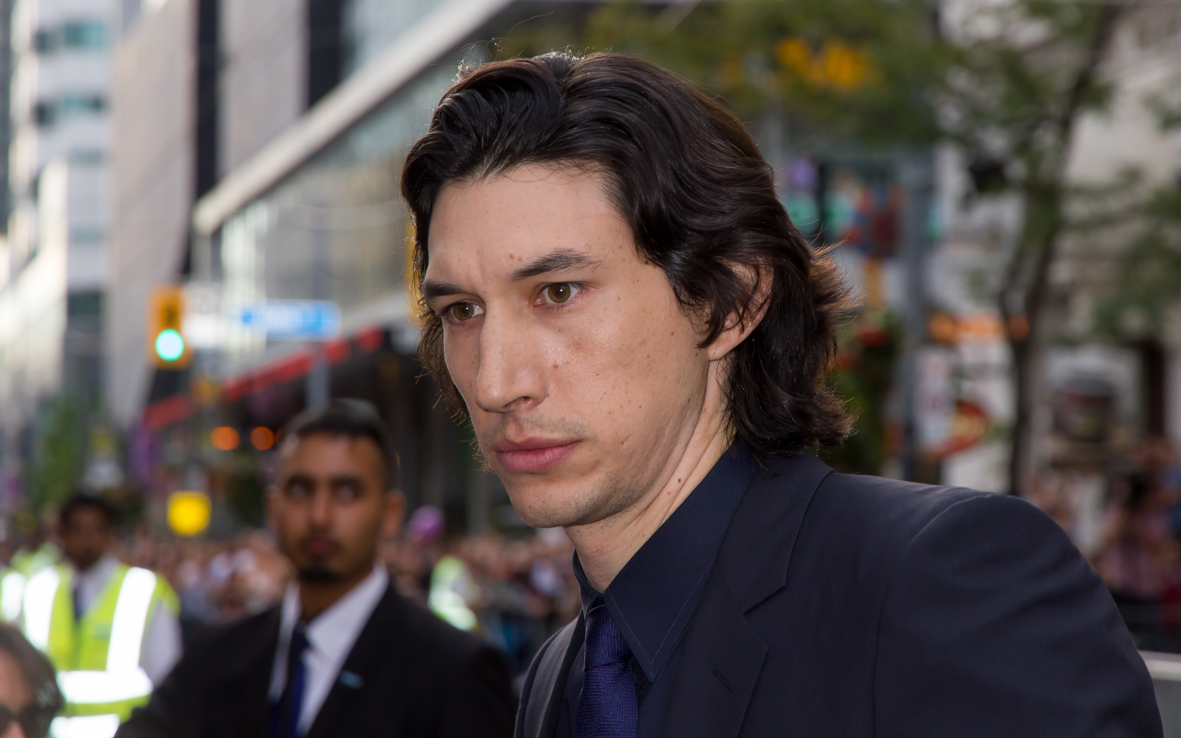 Adam Driver at the While We're Young premiere at the 2014 Toronto International Film Festival